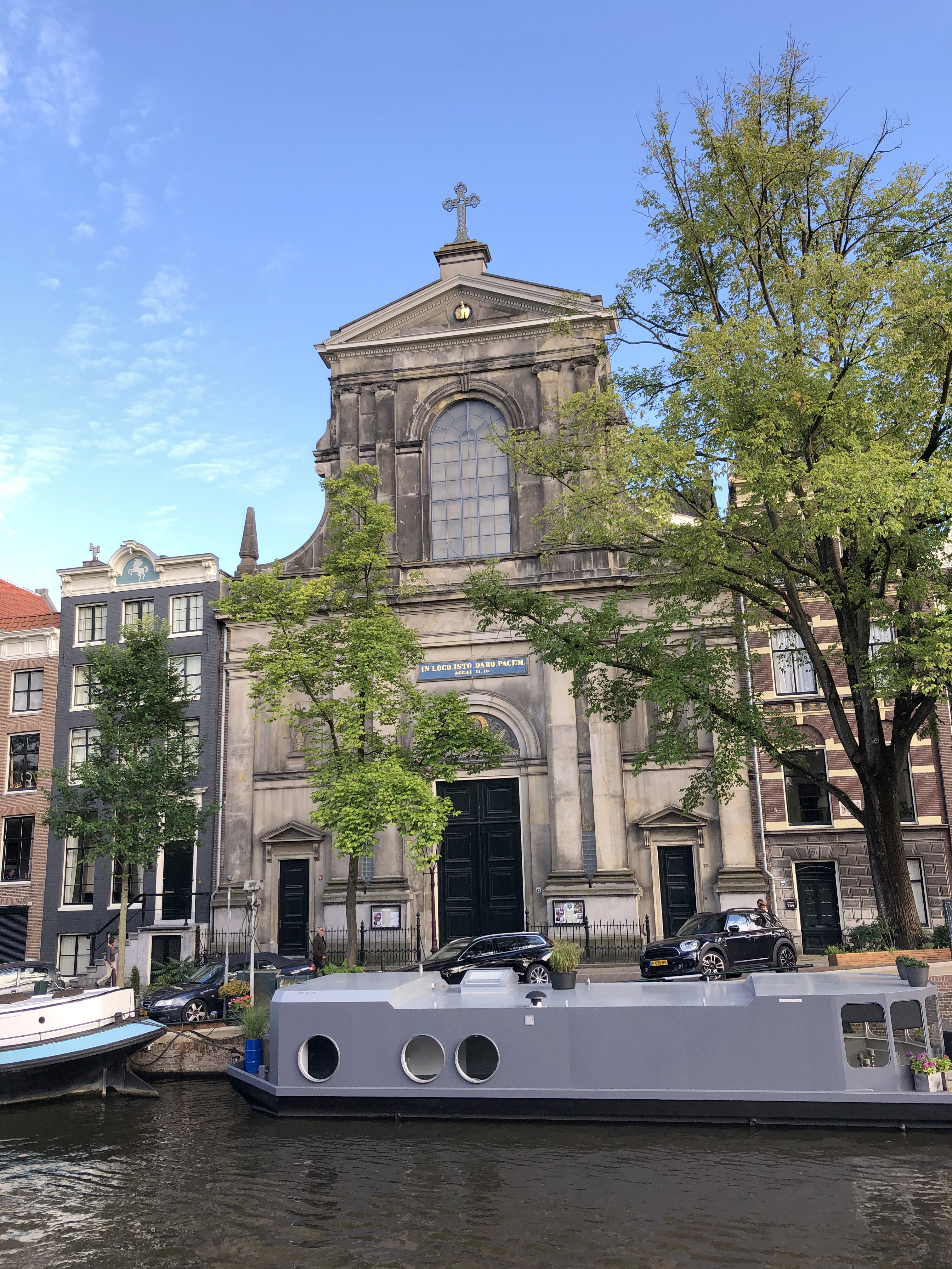 De Duif (The Dove), church building in Amsterdam, the Netherlands.